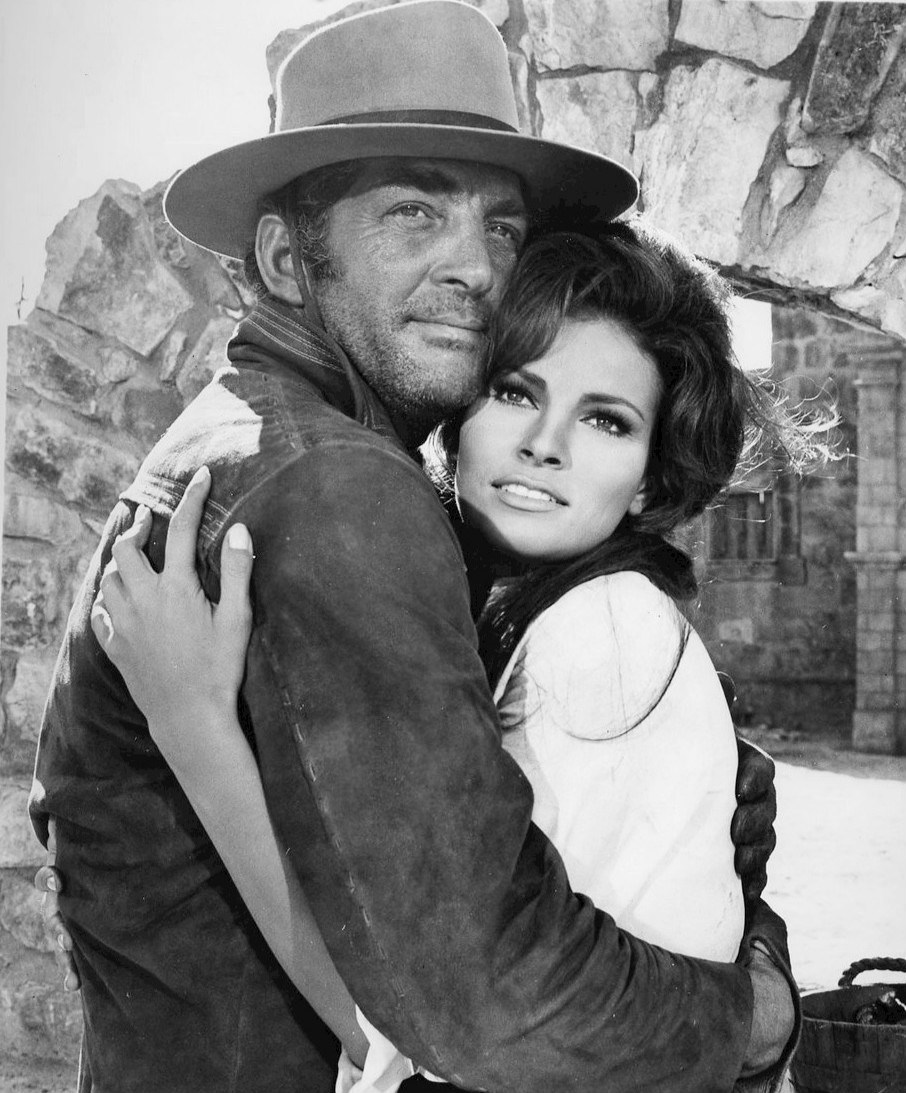 Photo from the 1968 film Bandelero! with Dean Martin and Raquel Welch.